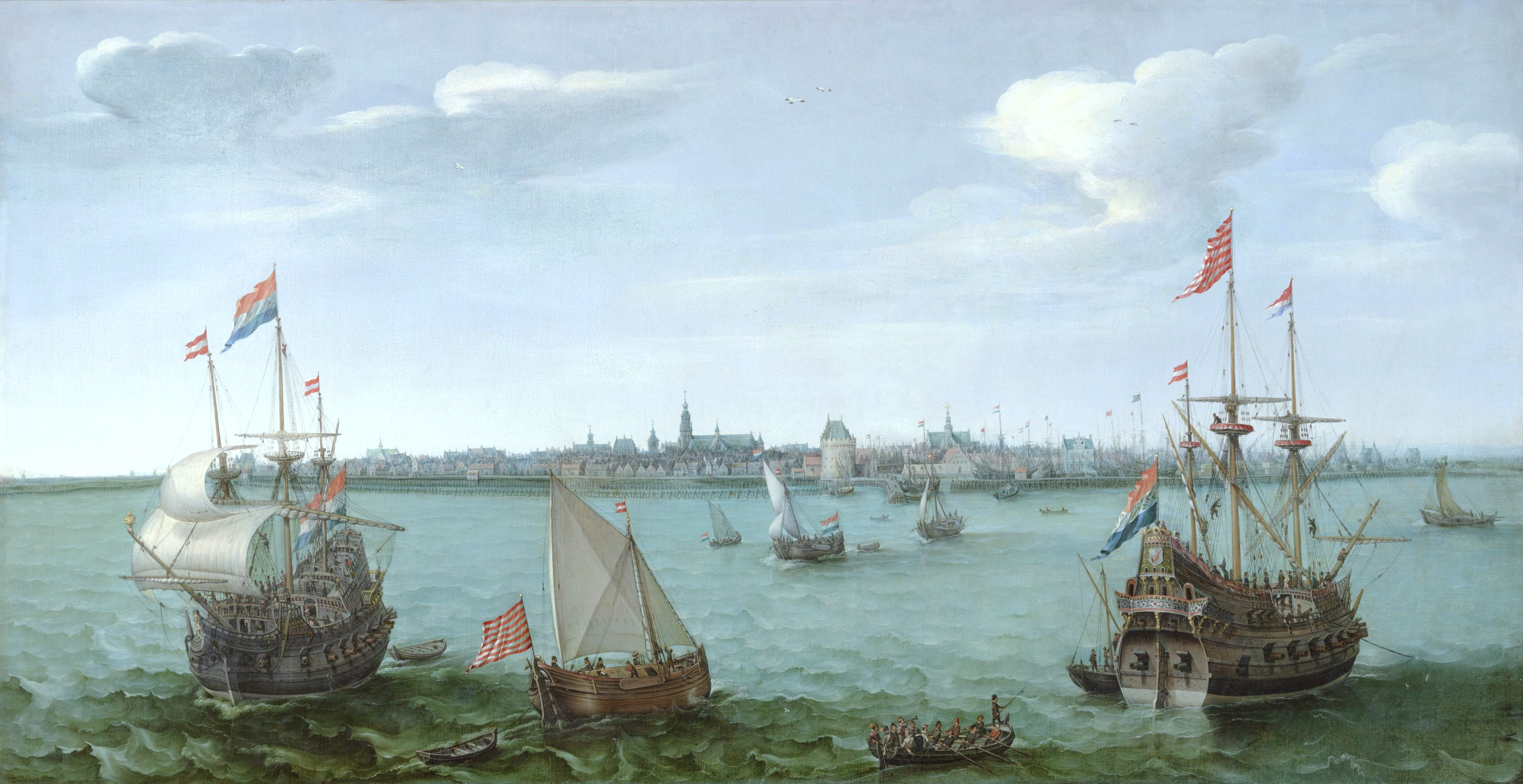 View of Hoorn (Netherlands)